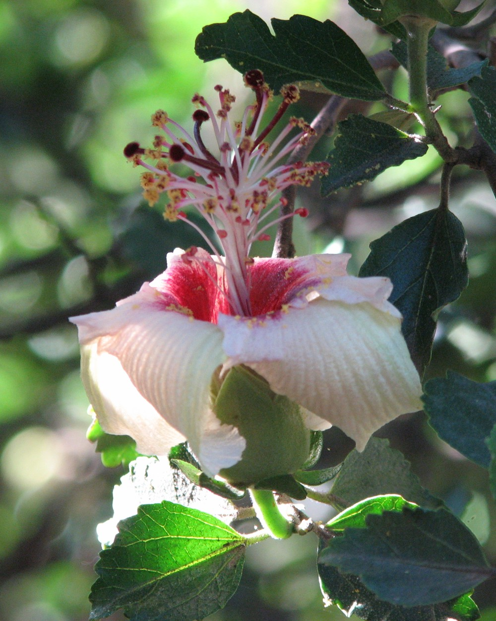 Hibiscus insularis, Royal Botanic Gardens, Melbourne